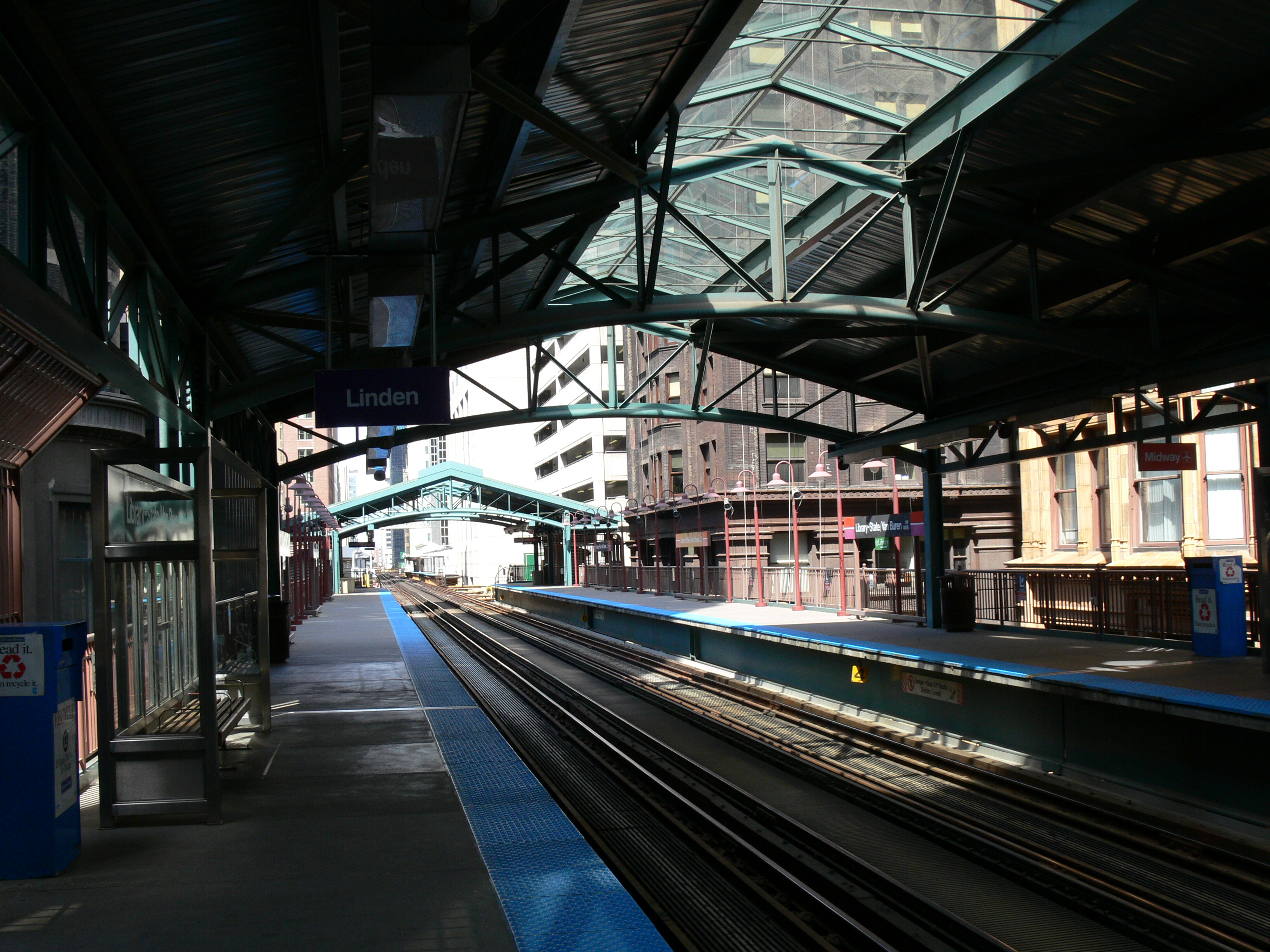 The Harold Washington Library – State/Van Buren station on the Chicago 'L'.